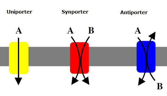 A scheme describing facilitated diffusion proteins